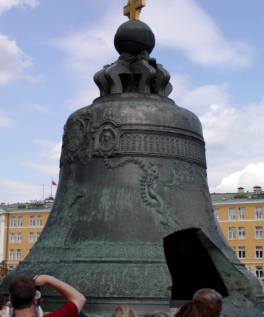 Photo of Tsar Bell in Moscow Kremlin